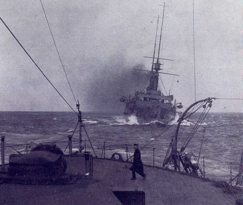 HMS Hindustan (1903) astern of HMS Britannia (1904) ca. October 1914